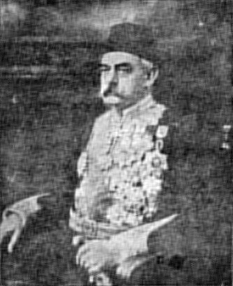 Portrait of Husayn Fakhri Pasha (1843-1910), former Prime Minister of Egypt.